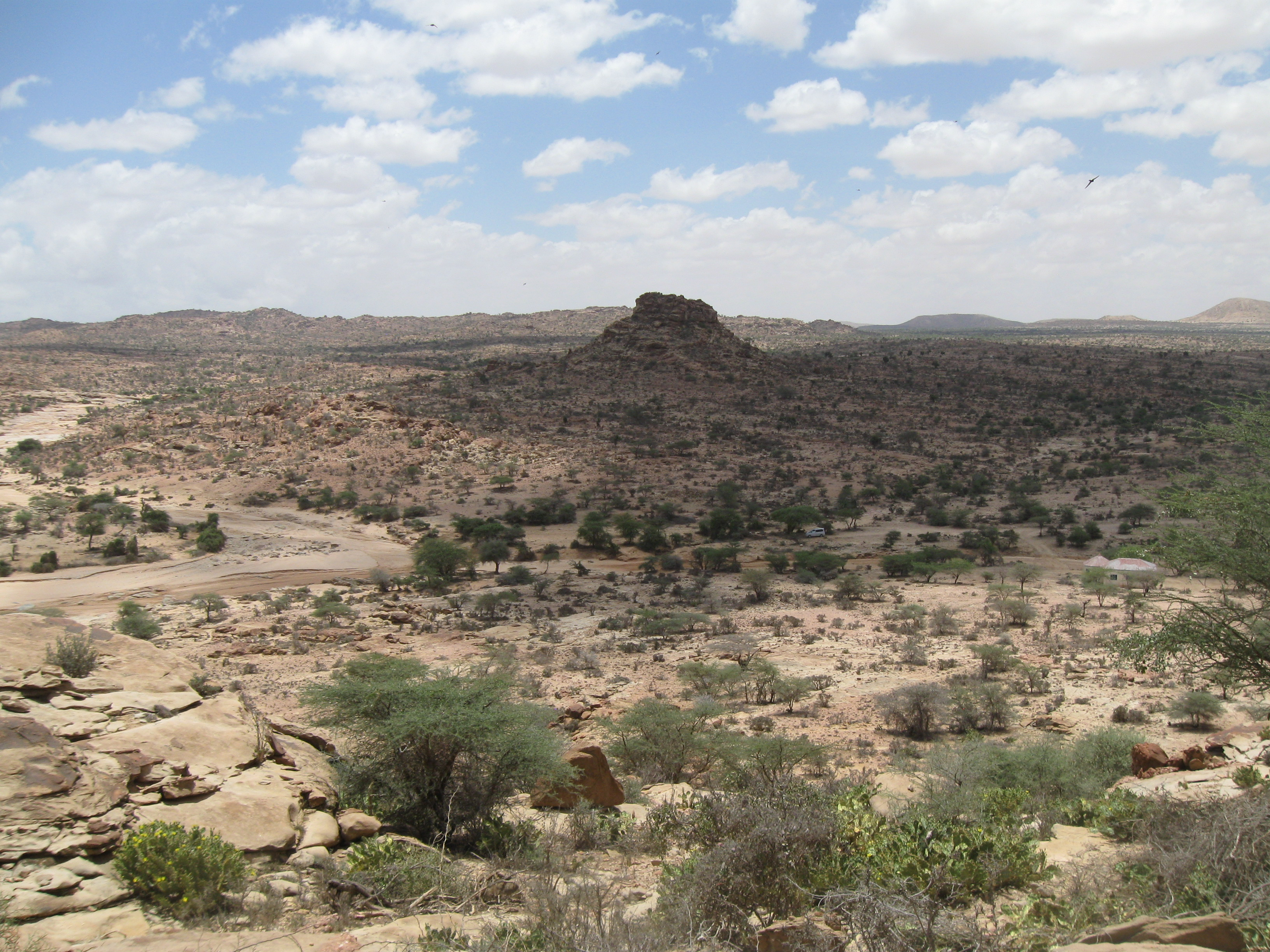 Somalia (Somaliland)